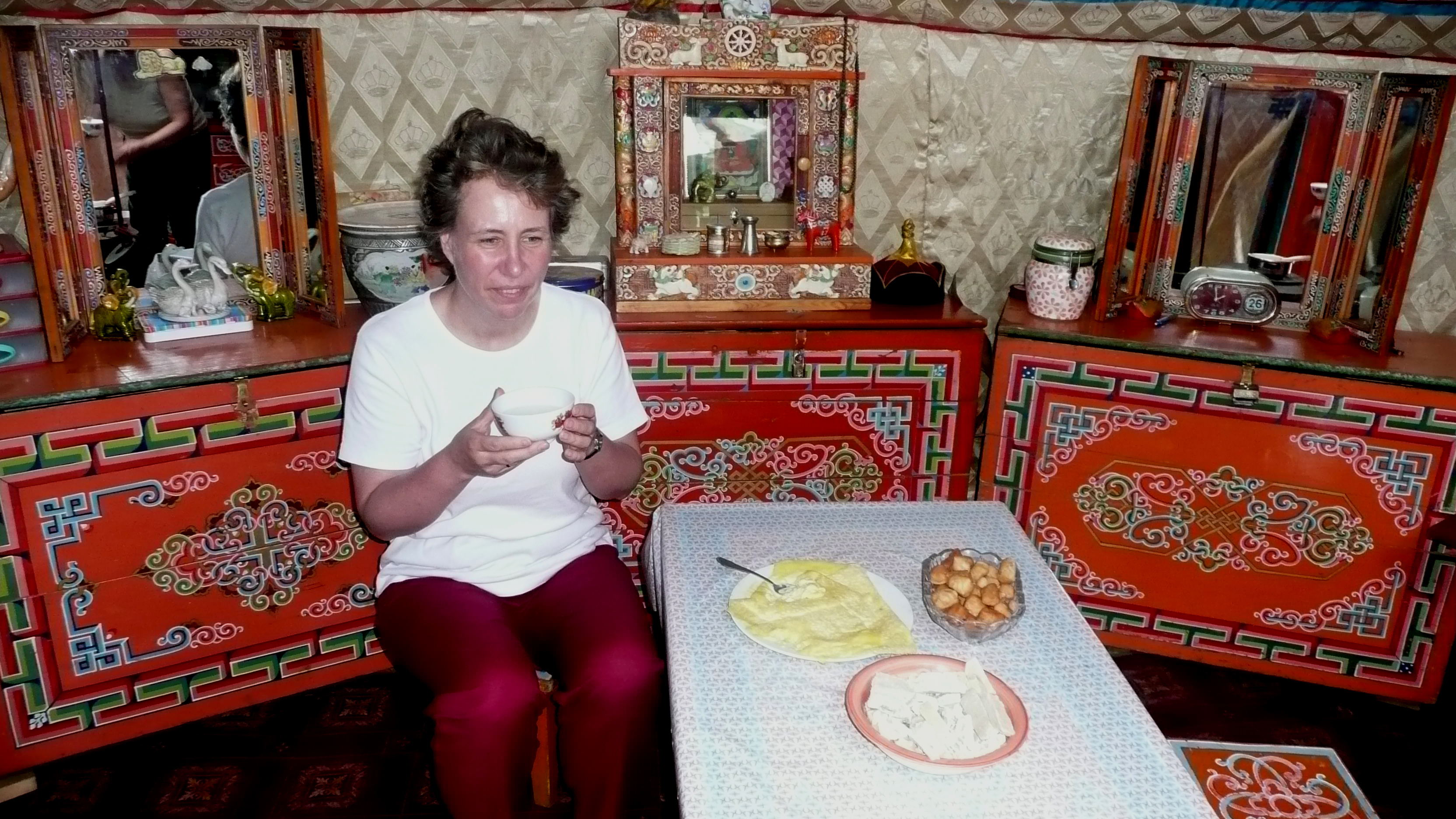 A visitor in a Mongolian yurt: Airag (Kumys, in hand), Öröm (Clotted cream), Aaruul, and pastries.